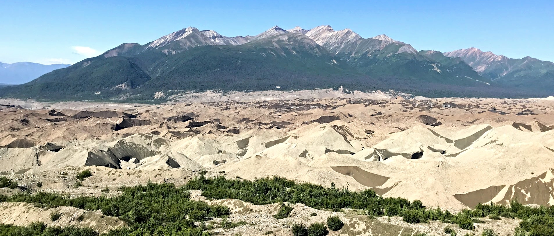 Fireweed Mountain across the (rock covered) Kennicott Glacier seen from Kennecott, AK